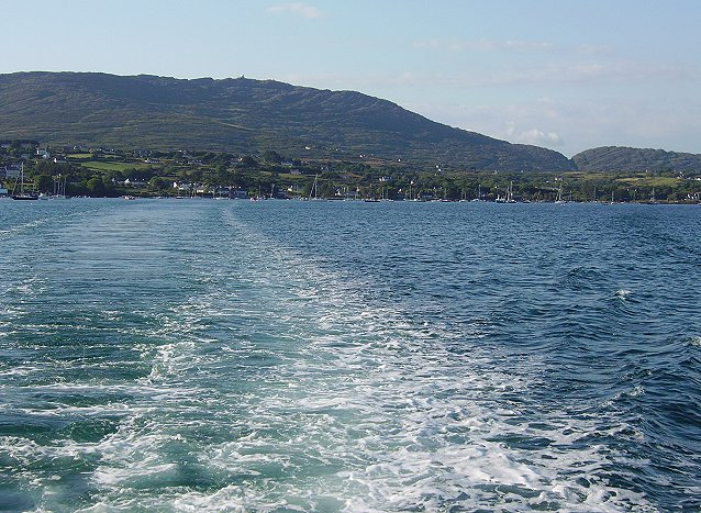 Skull Harbour Out in the harbour with Mount Gabriel beyond.